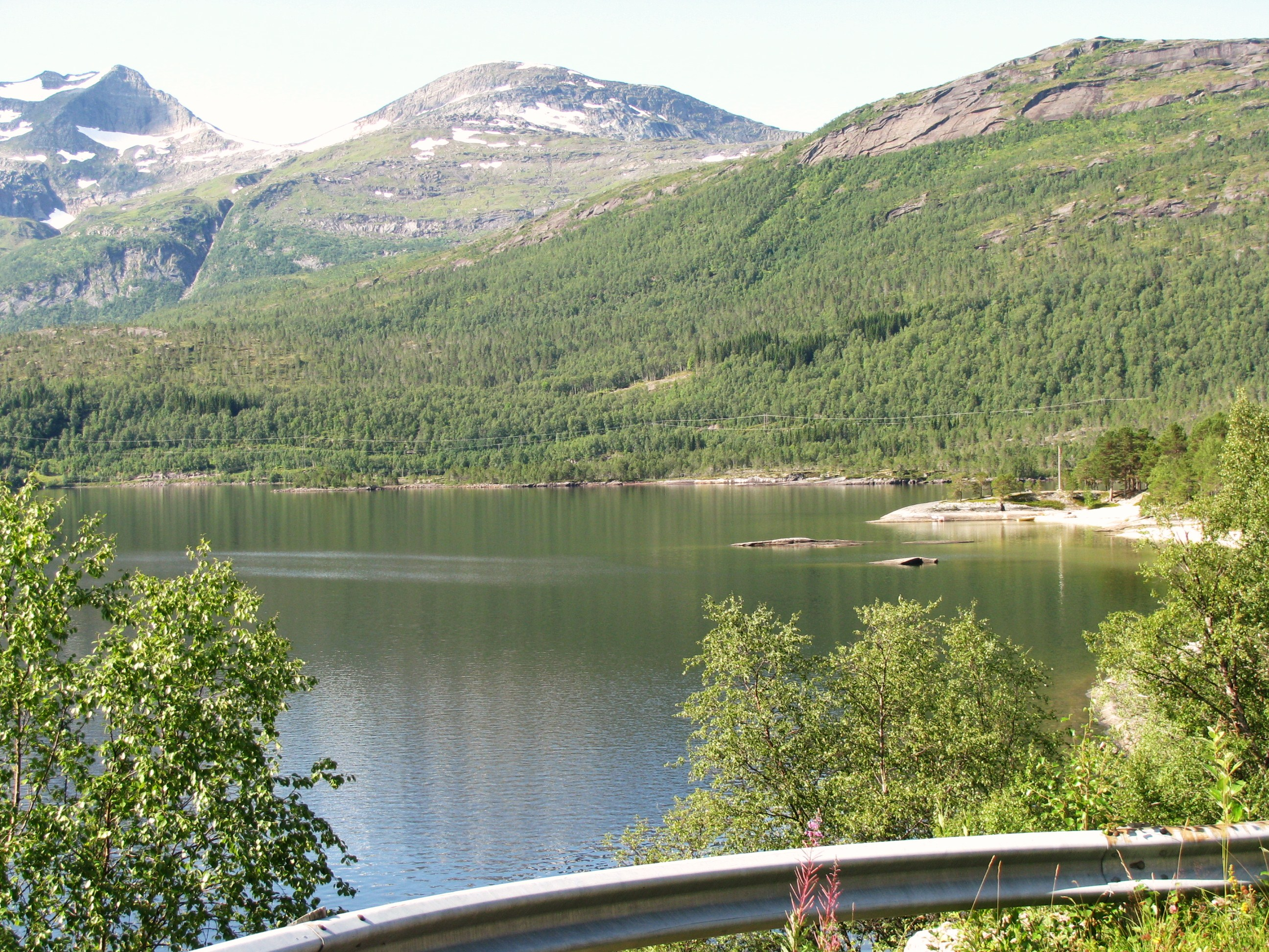 Mountain landscape with lake in Hamarøy municipality, Nordland, Norway. To the right is a white beach in the pine forest.